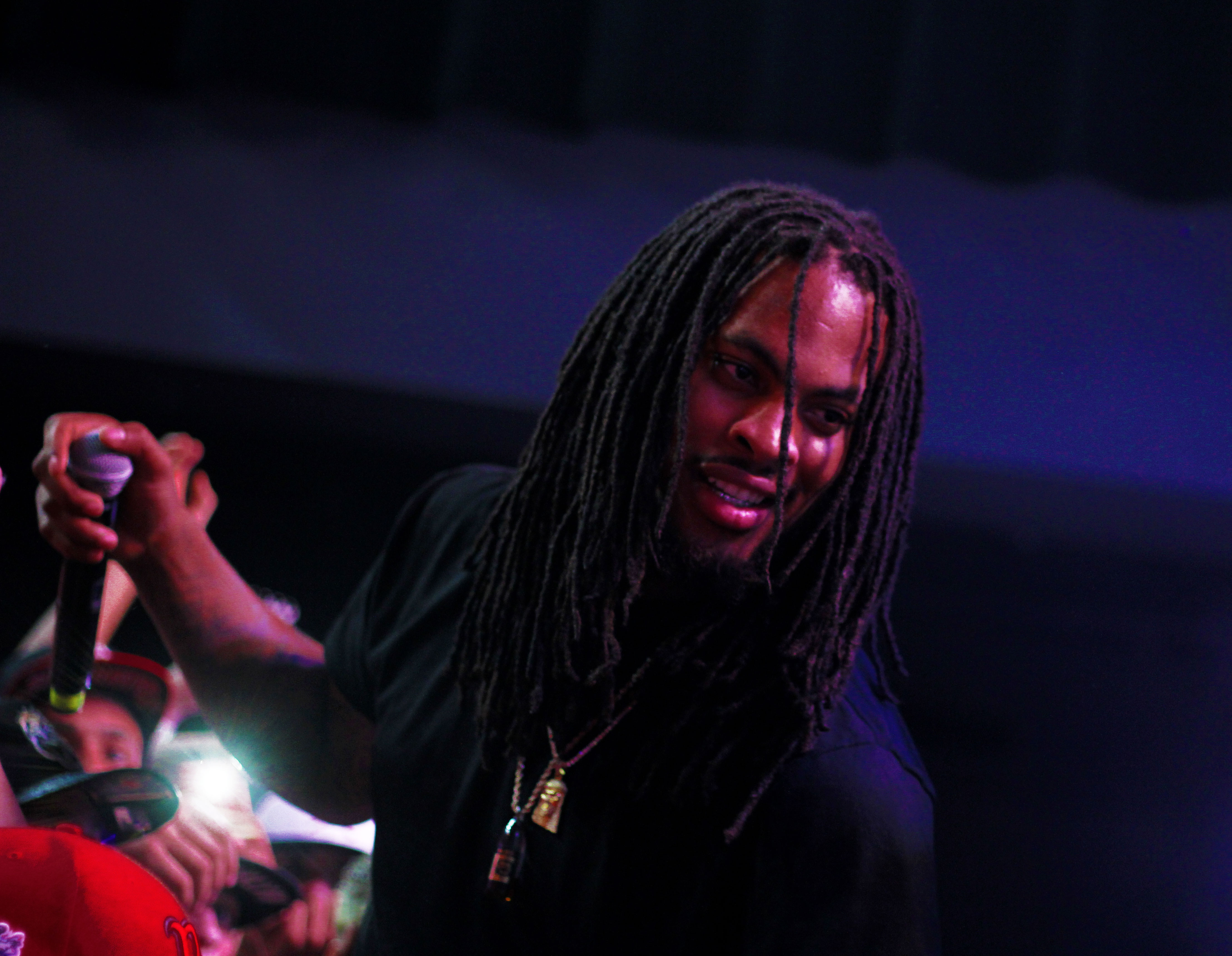 Waka Flocka Flame at the London Hall Aug 2 2014